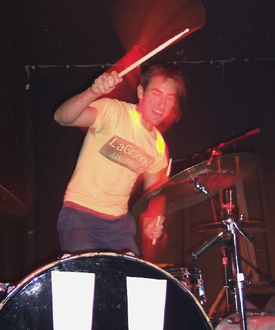 Musician John Robinette